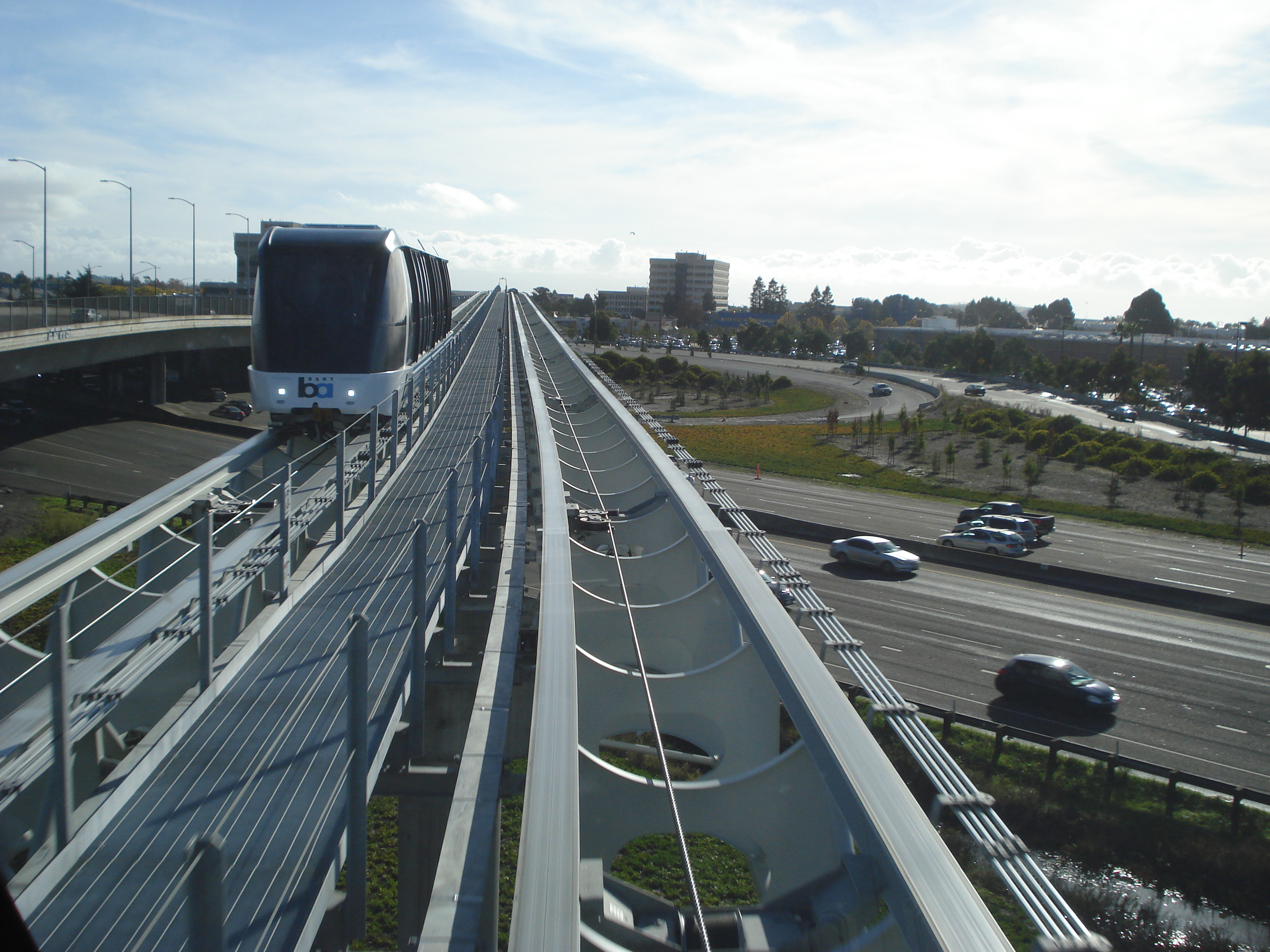 BART to Oakland International Airport People Mover Ride